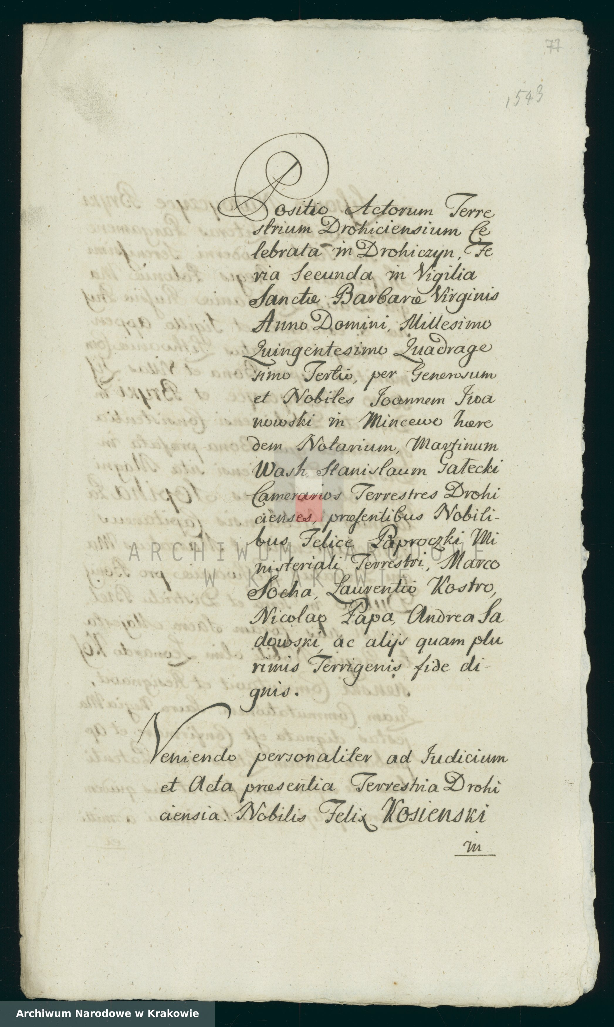 Anderey Sadovski in Drohichin. 1540 year